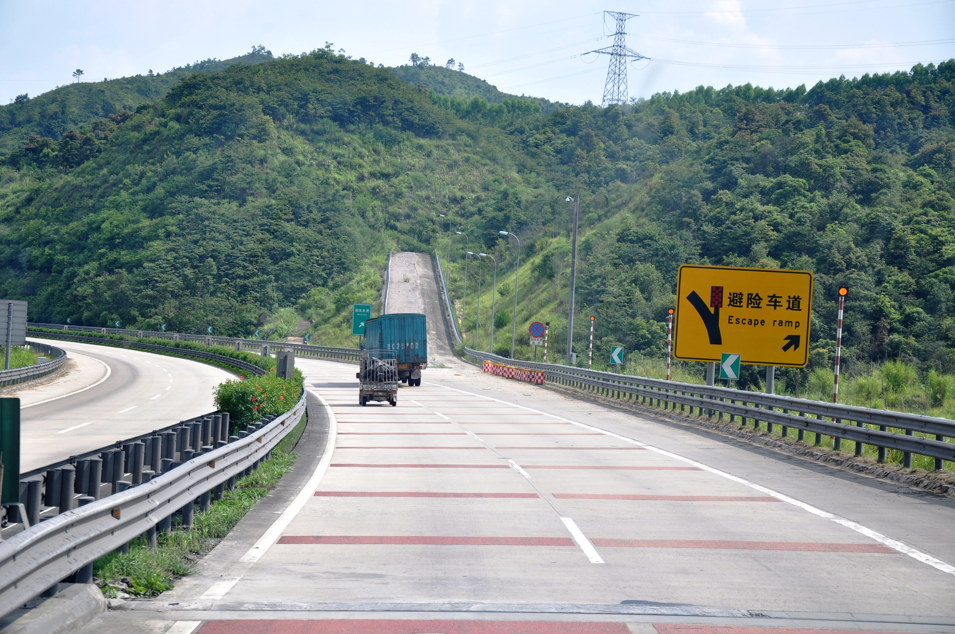 Escape Ramp In China Expwy G4511